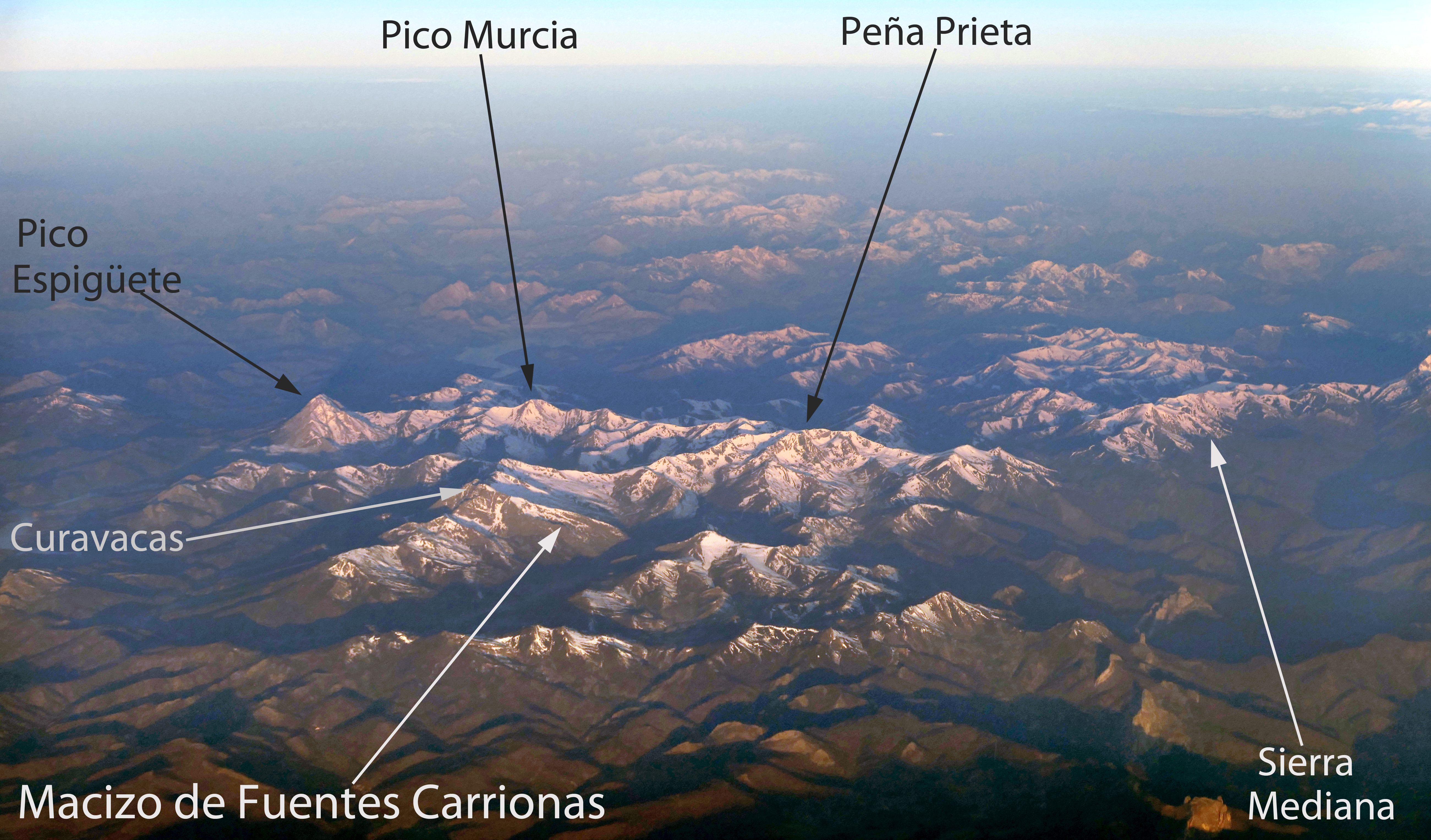 An aerial view of part of the Cantabrian mountain range in northern Spain. The nearest mountains are part of the Macizo de Fuentes Carrionas. Some of the principal mountains are labelled.